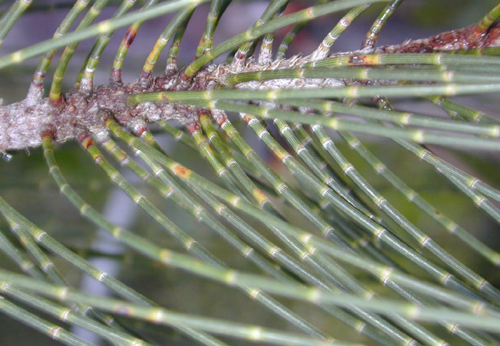 Close-up of twigs of the Common Ironwood (Casuarina equisetifolia) taken by Eric Guinther in Hawai'i and released under the GNU Free Documentation License.